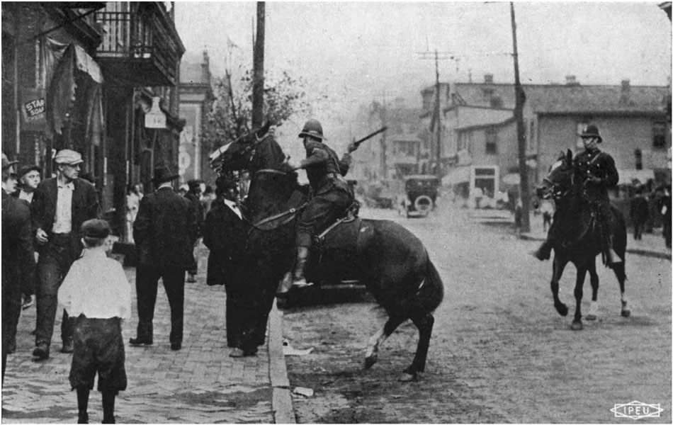 Mounted state police during the Great Steel Strike of 1919 in Homestead, Pennsylvania.